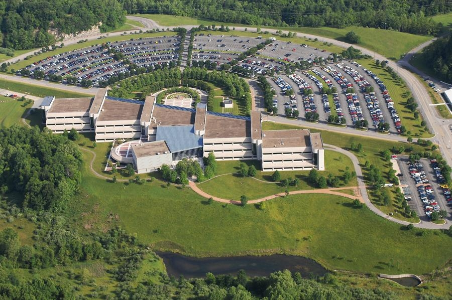 Aerial shot of the Criminal Justice Information Services building at Clarksburg, West Virginia in 2009